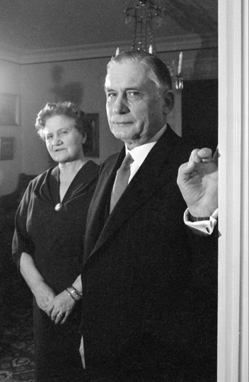 Finland's prime minister during the continuation war, Edwin Linkomies with his wife Vera in 1956.